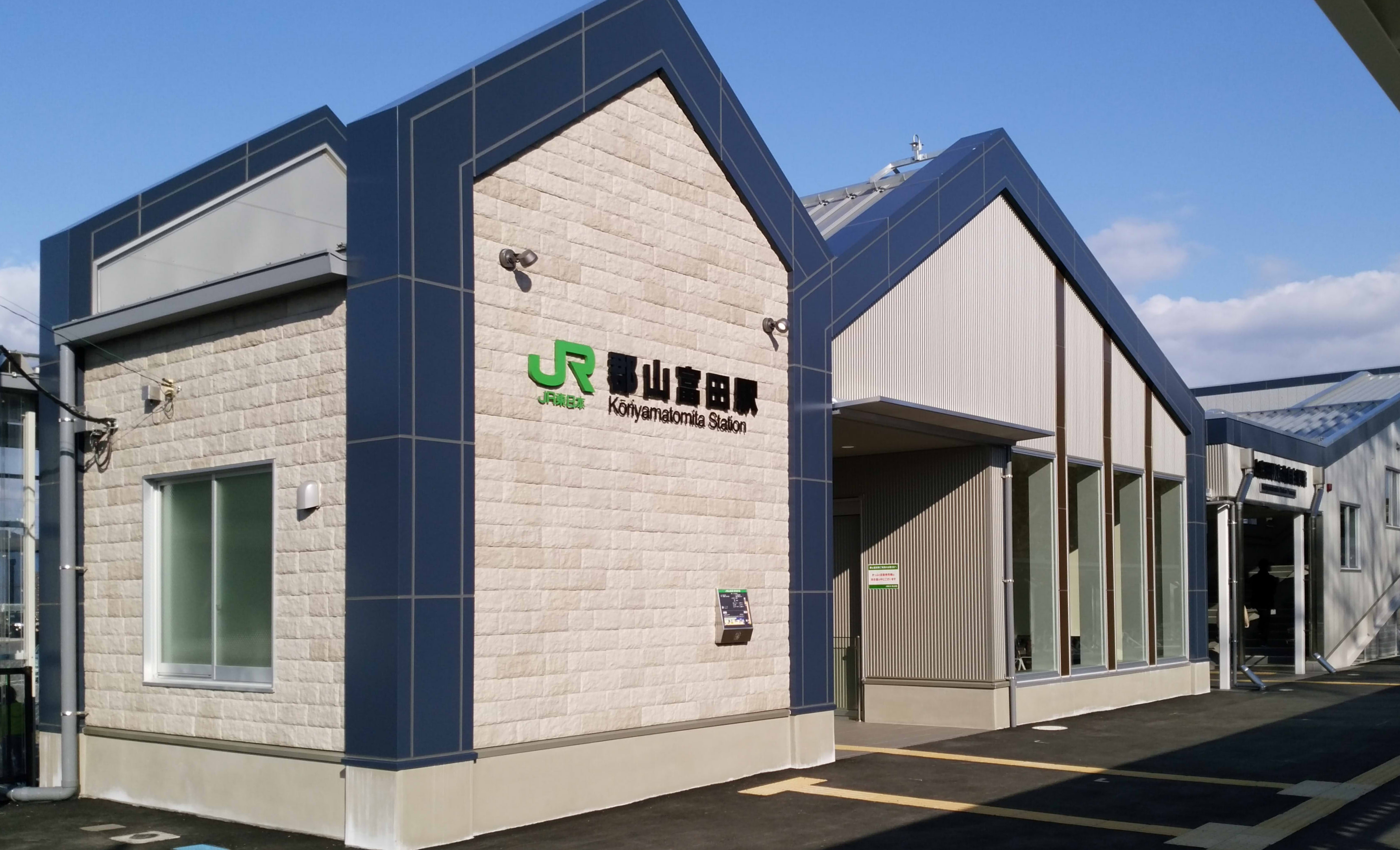 The entrance to Koriyamatomita Station on the Banetsu West Line in Koriyama, Fukushima Prefecture, Japan